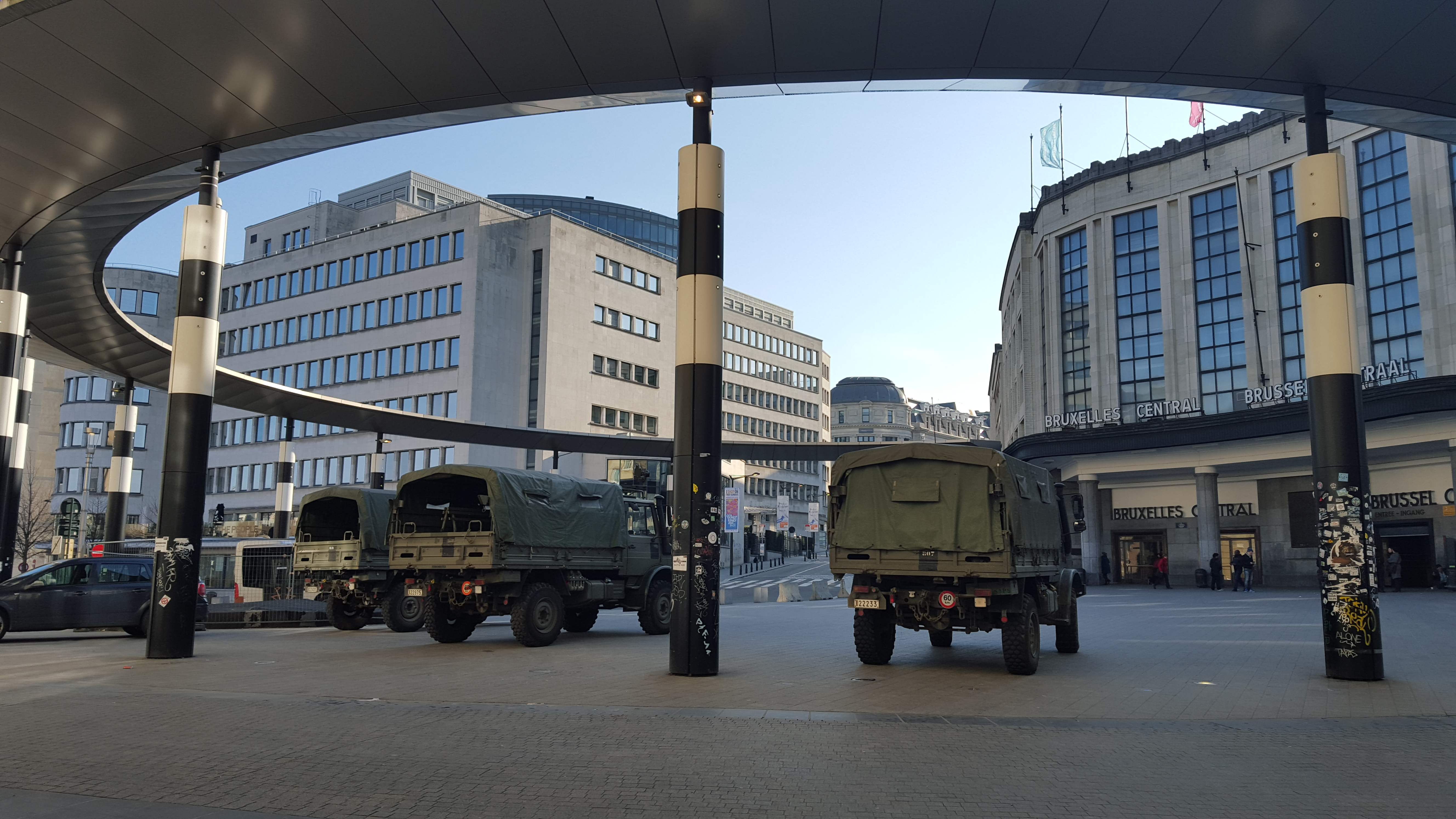 Brussels Central trainstation, Brussels after terrorist attacks in March 2016